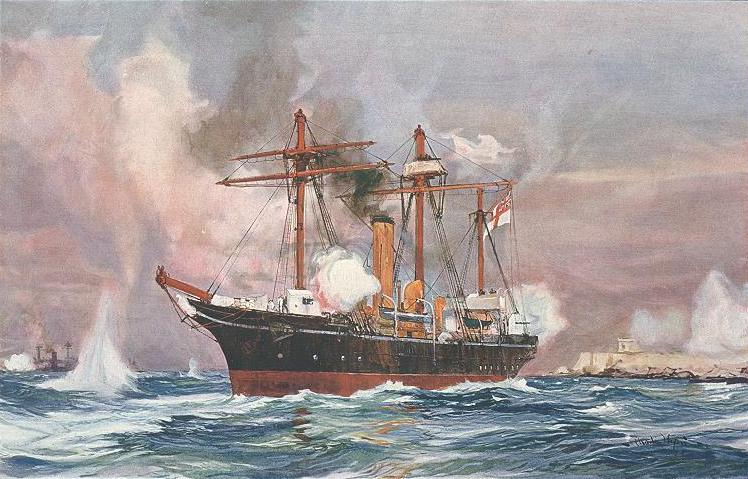 "Well Done Condor". The Bombardment of Alexandria, 1882